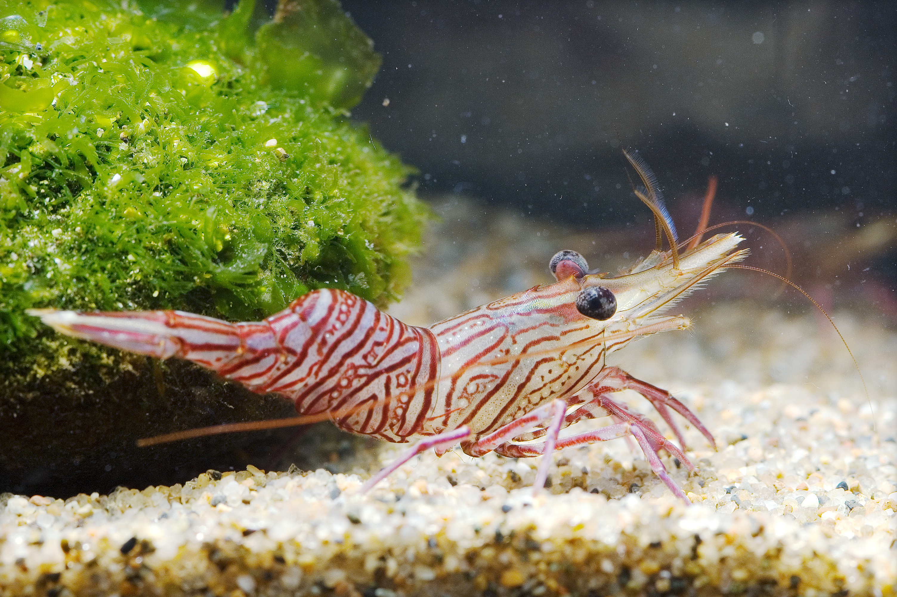 Sarasaebi, Rhynchocinetes uritai, from Shimoda, Shizuoka, Japan.